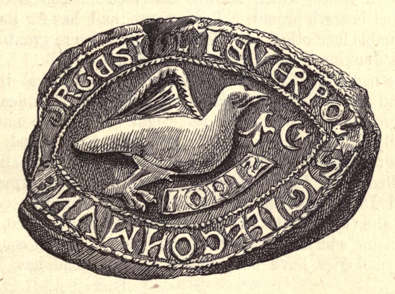 Reproduction of the medieval seal of Liverpool. The inscription reads Sigill. Conmvne Borge'si. d. Leverpol, i.e. Sigillum Commune Burgensium de Liverpool—common seal of the burgesses of Liverpool. The bird (forerunner of the Liver bird) is probably meant to be the eagle of St John, and is thus a reference to the borough's founder King John, as are the star-and-crescent and planta genista badges depicted. The scroll reads Ioh'is, i.e Iohannis. The original seal matrix, which probably dated to the 13th century, was lost at the taking of the town by Prince Rupert in 1644.